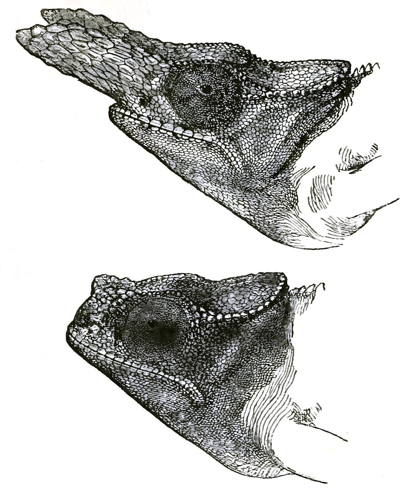 The Descent of Man, Scan of Fig. 35. Chamæleon bifurcus. Upper figure, male; lower figure, female.